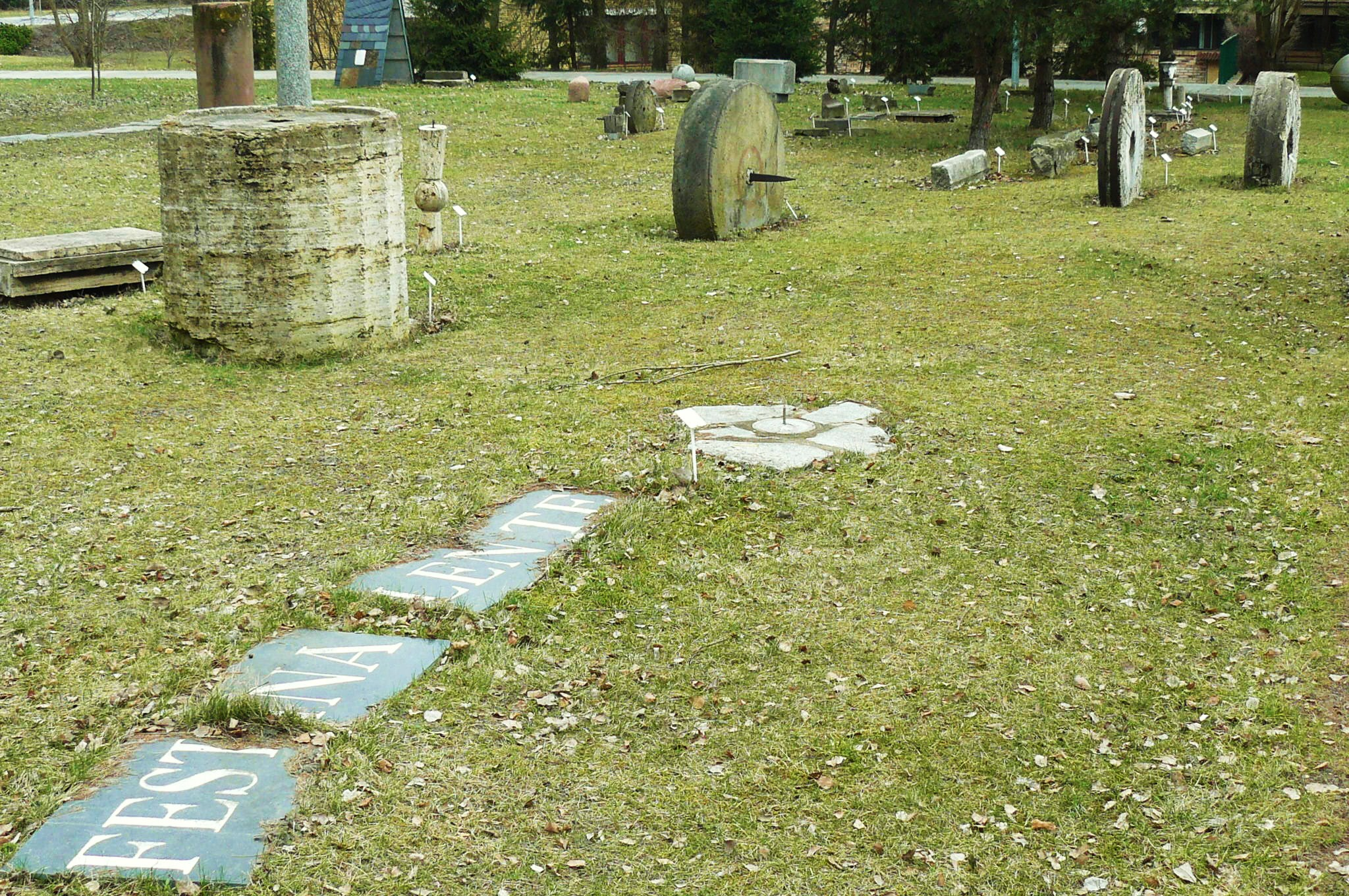 Lapidarium UAM, Poznan. Dziegielowa Street.